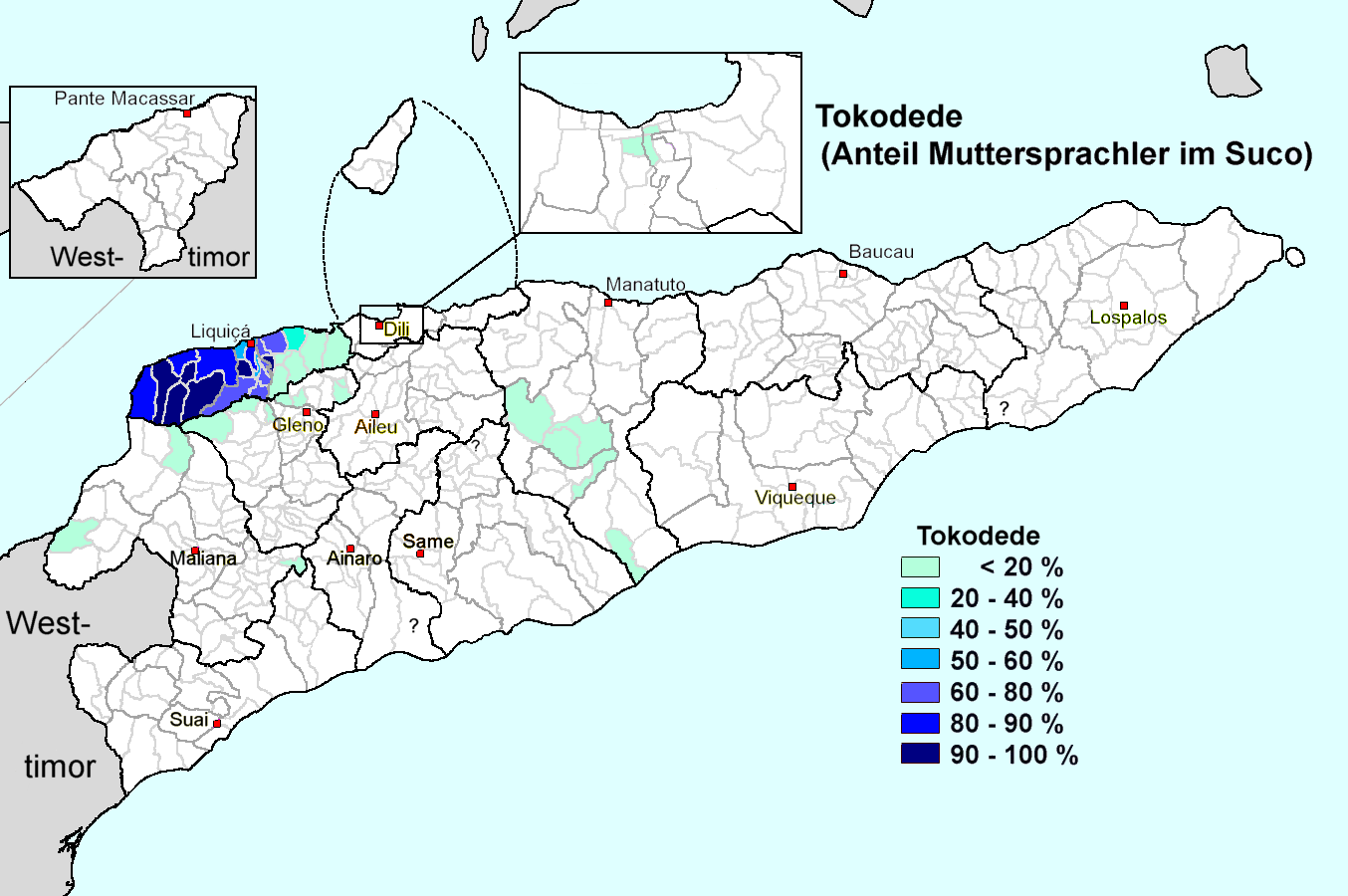 Percentage of people using Tokodede as mother tongue in sucos of East Timor (Timor-Leste), according census 2010